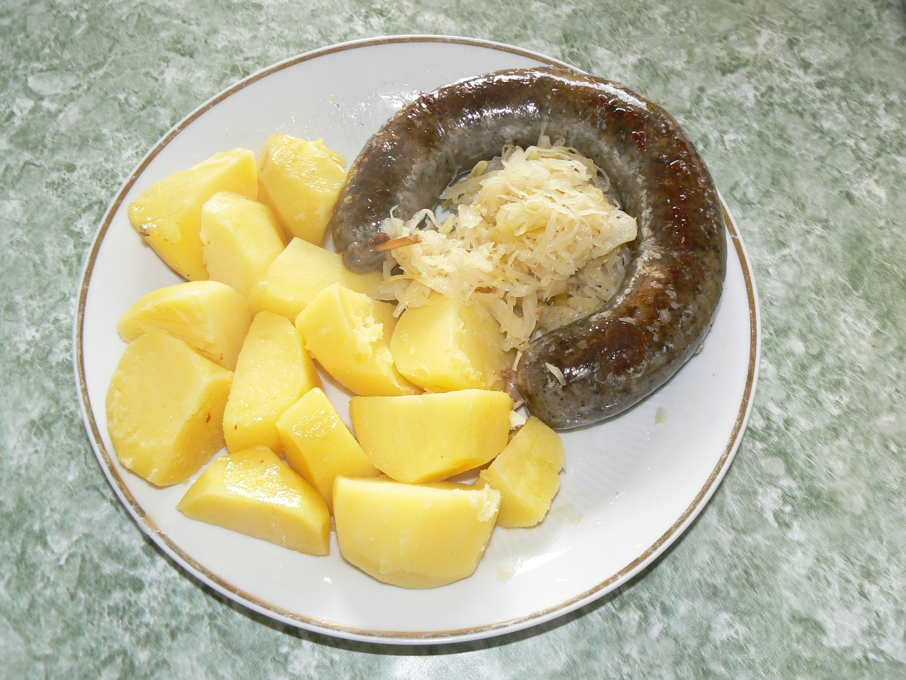 Jitrnice (a kind of sausage, made in Bohemia and Moravia)